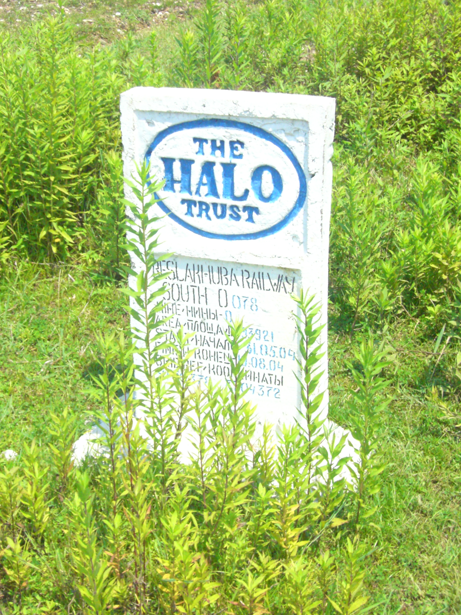 Stone installed by the Halo Trust international NGO after checking Baslakhuba Railway South region for mines (no mines were found, actually). Ochamchira district of Abkhazia.